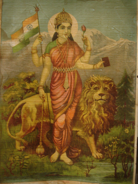 Bharat Mata literally constitutes India, in a print from the 1920's-30's; *another print from the same period* Source: ebay, Nov. 2006